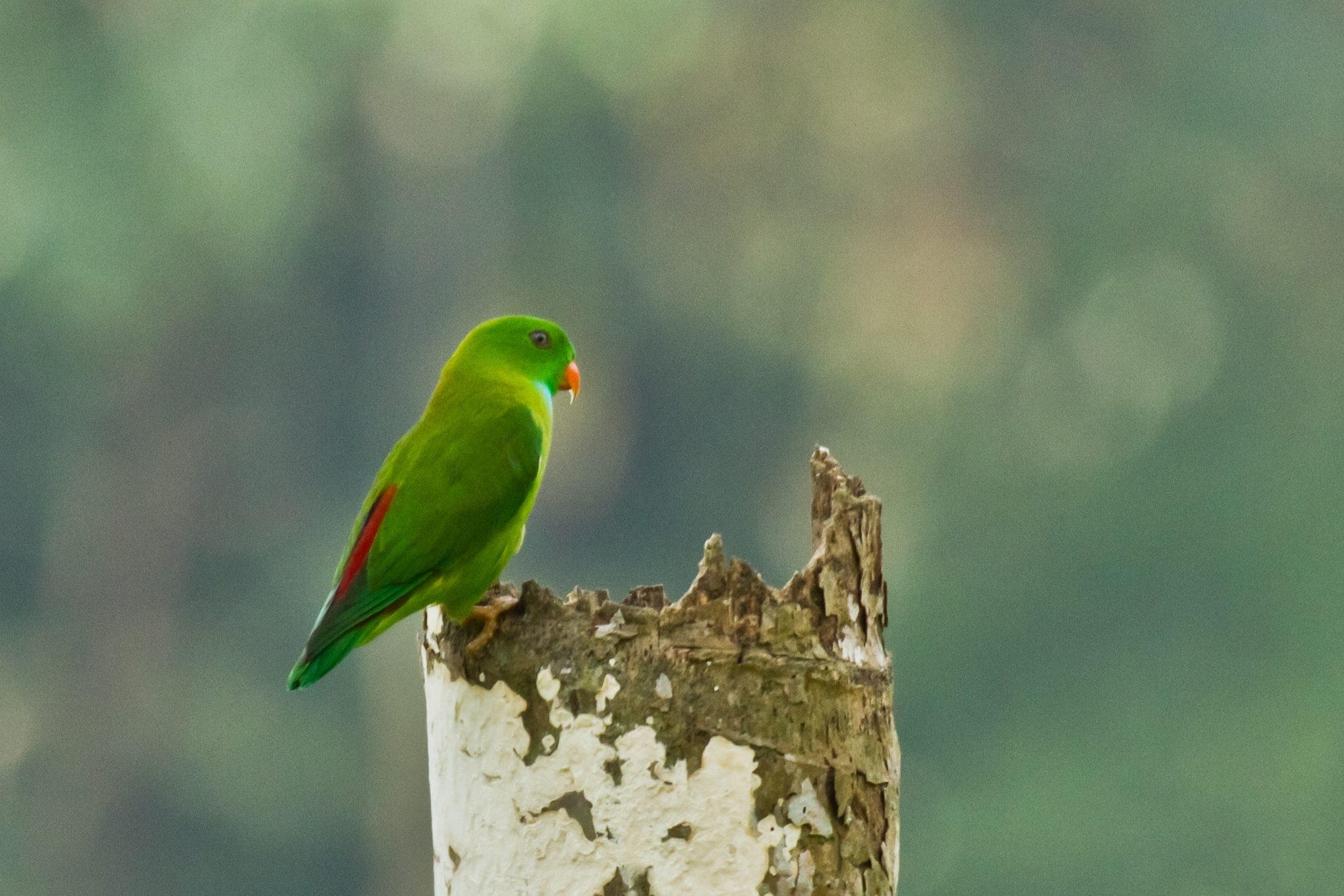 Vernal Hanging Parrot